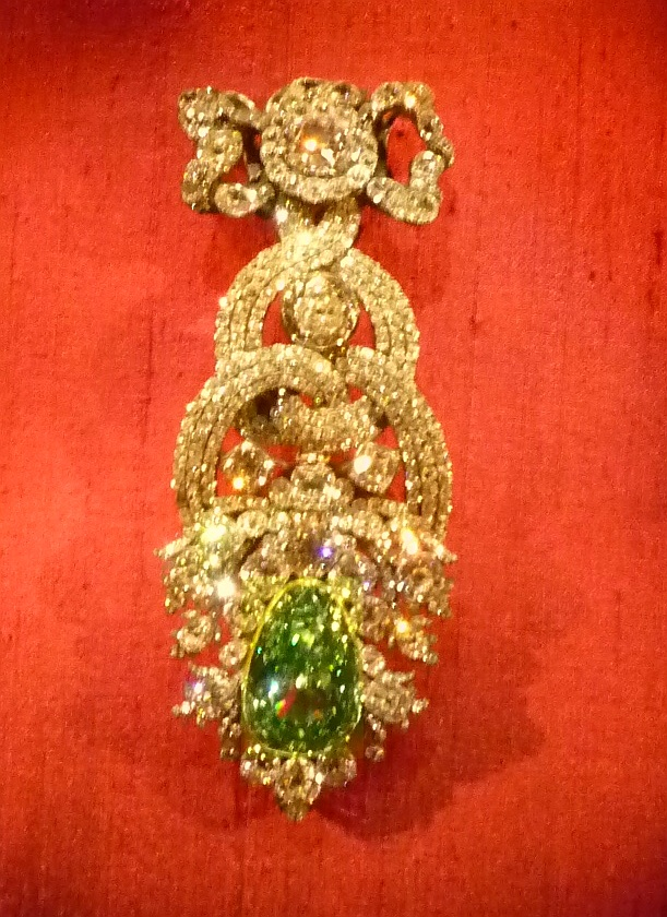 Hat ornament with the Dresden Green